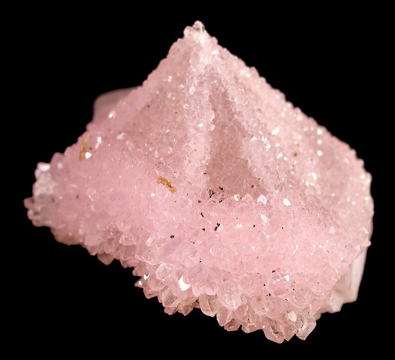 Quartz (Var.: Rose Quartz), Quartz Locality: Ilha claim, Taquaral, Itinga, Jequitinhonha valley, Minas Gerais, Southeast Region, Brazil (Locality at ) Size: 5.4 x 4.1 x 3.3 cm. A bizarre specimen featuring a druse of sparkly pink rose quartz over a sharply defined, skeletal quartz termination! This Photo was Photo of the Day - 25th Jun 2008